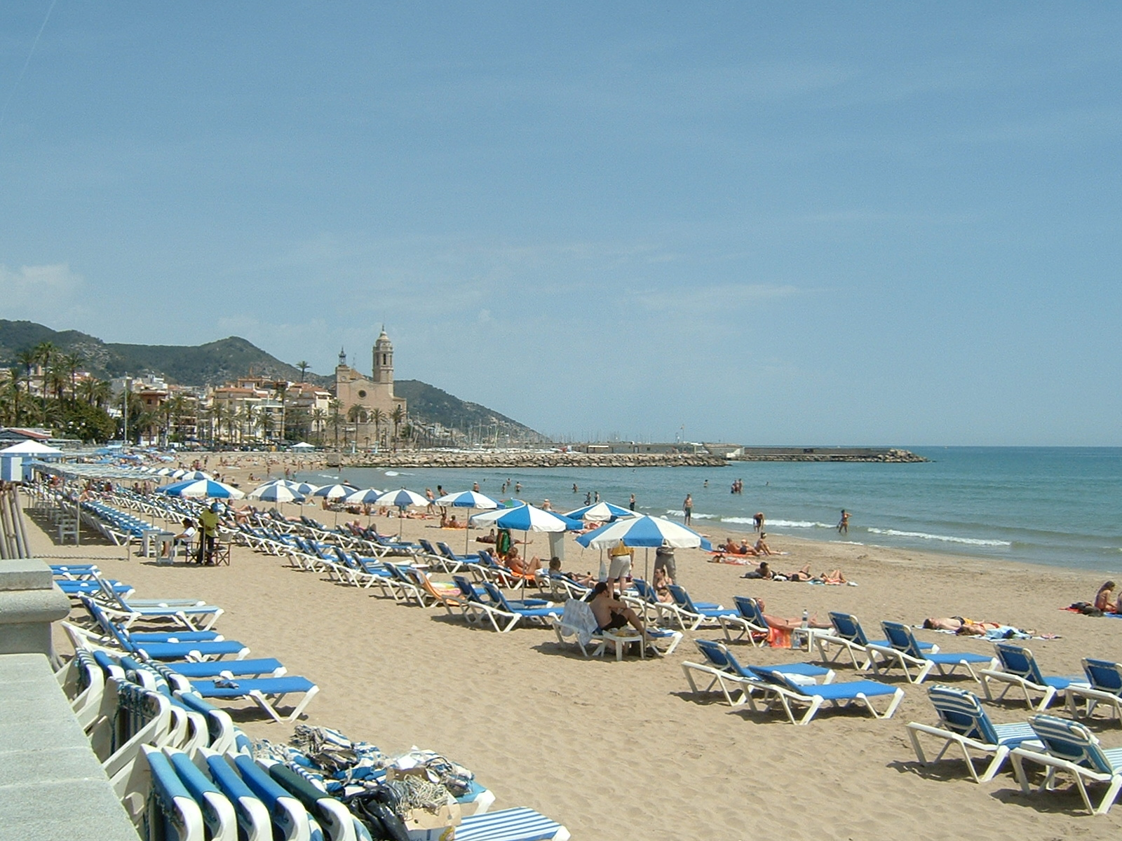 The beach at Sitges, Spain